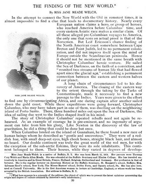 "The Finding of the New World", by Jane Meade Welch, in The Congress of Women Held in the Woman's Building, World Columbian